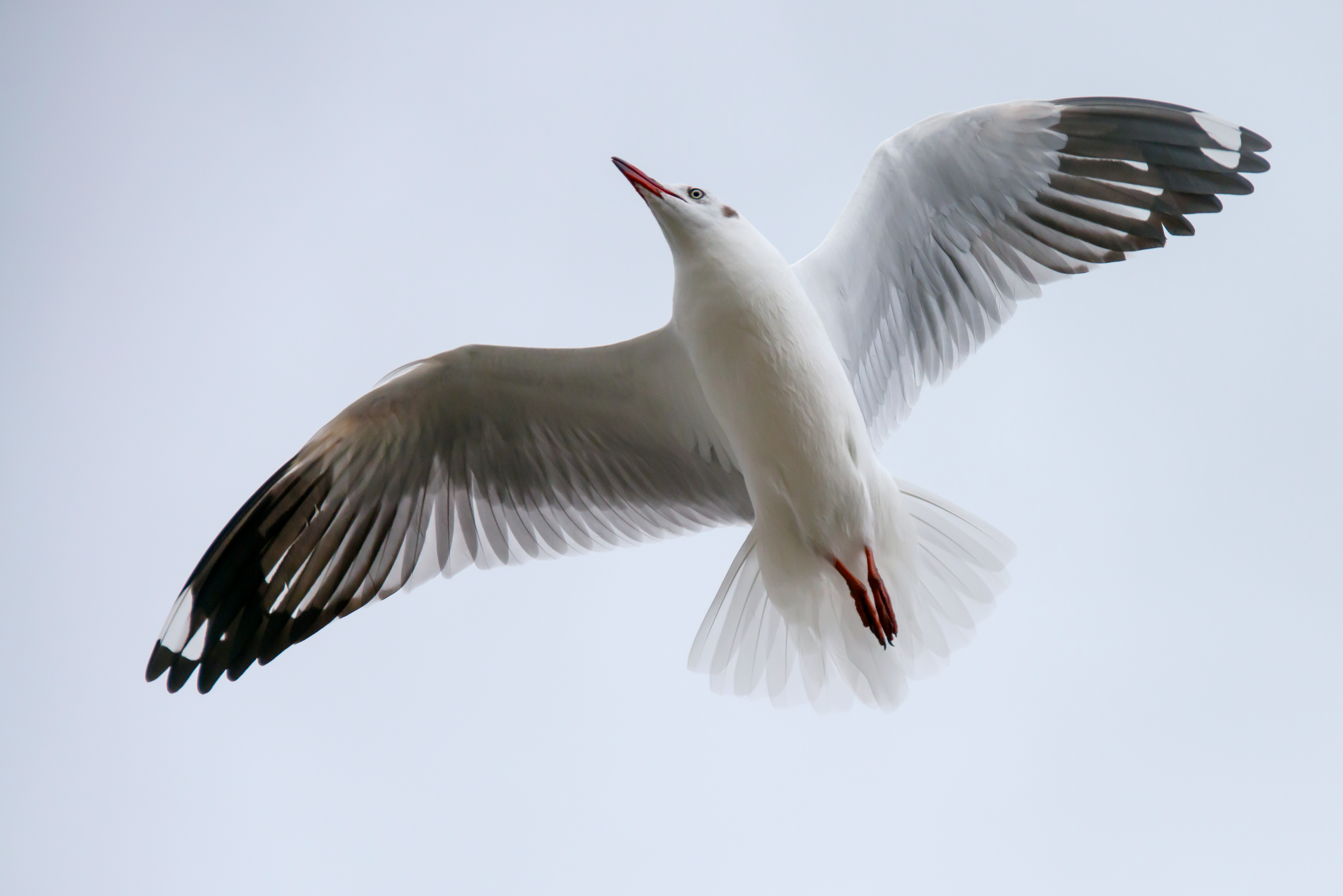 Brown-headed Gull, Chroicocephalus brunnicephalus - Bang Poo / Bangkok Photo by; Also uploaded to Flickr